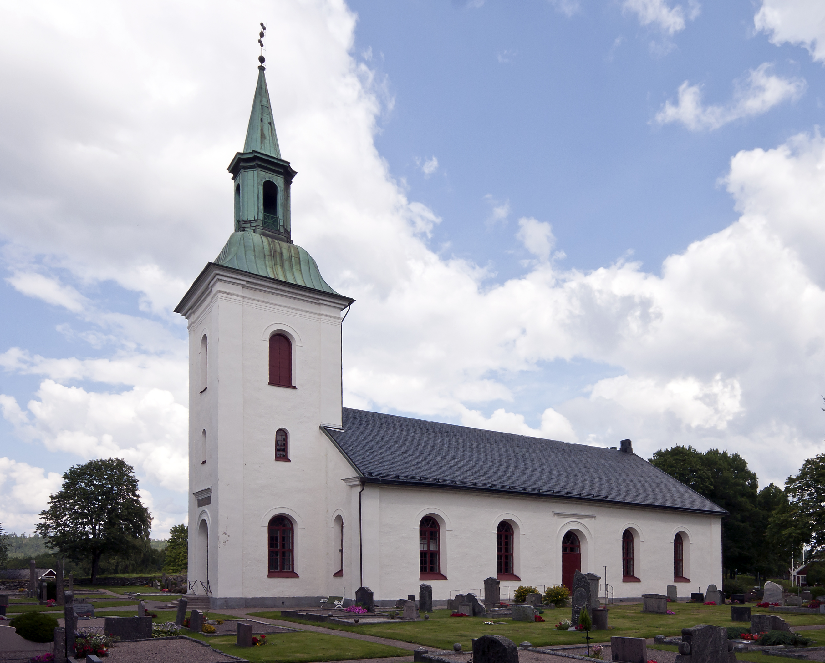 Hemsjö kyrka, parish church of Hemsjö, Alingsås Municipality, Sweden.